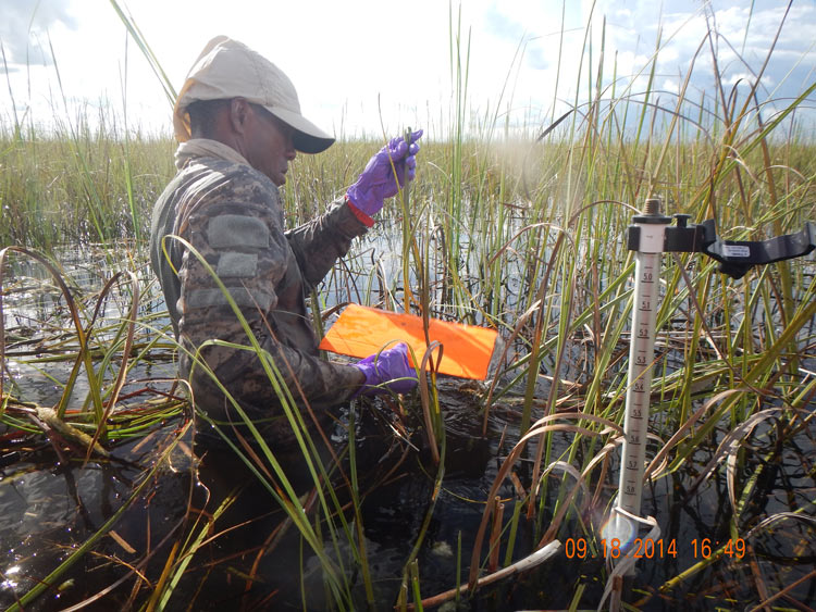 An EPA scientist marks a sampling station location for the Everglades Ecosystem Assessment.